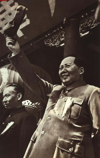 1950年10月，中华人民共和国第一个国庆节，毛泽东和刘少奇在天安门上向群众示意，1950年8月的《人民画报》。